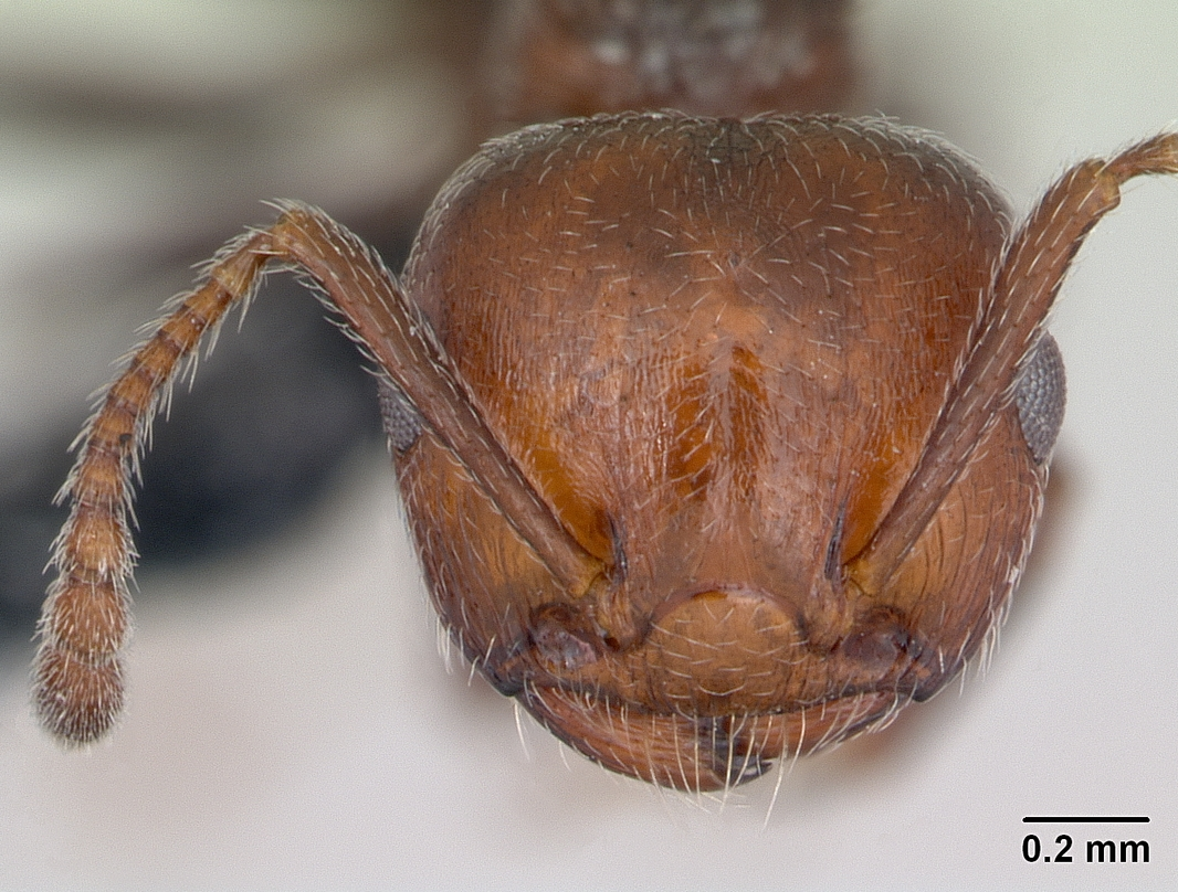 Head view of ant Crematogaster scutellaris specimen casent0173180.